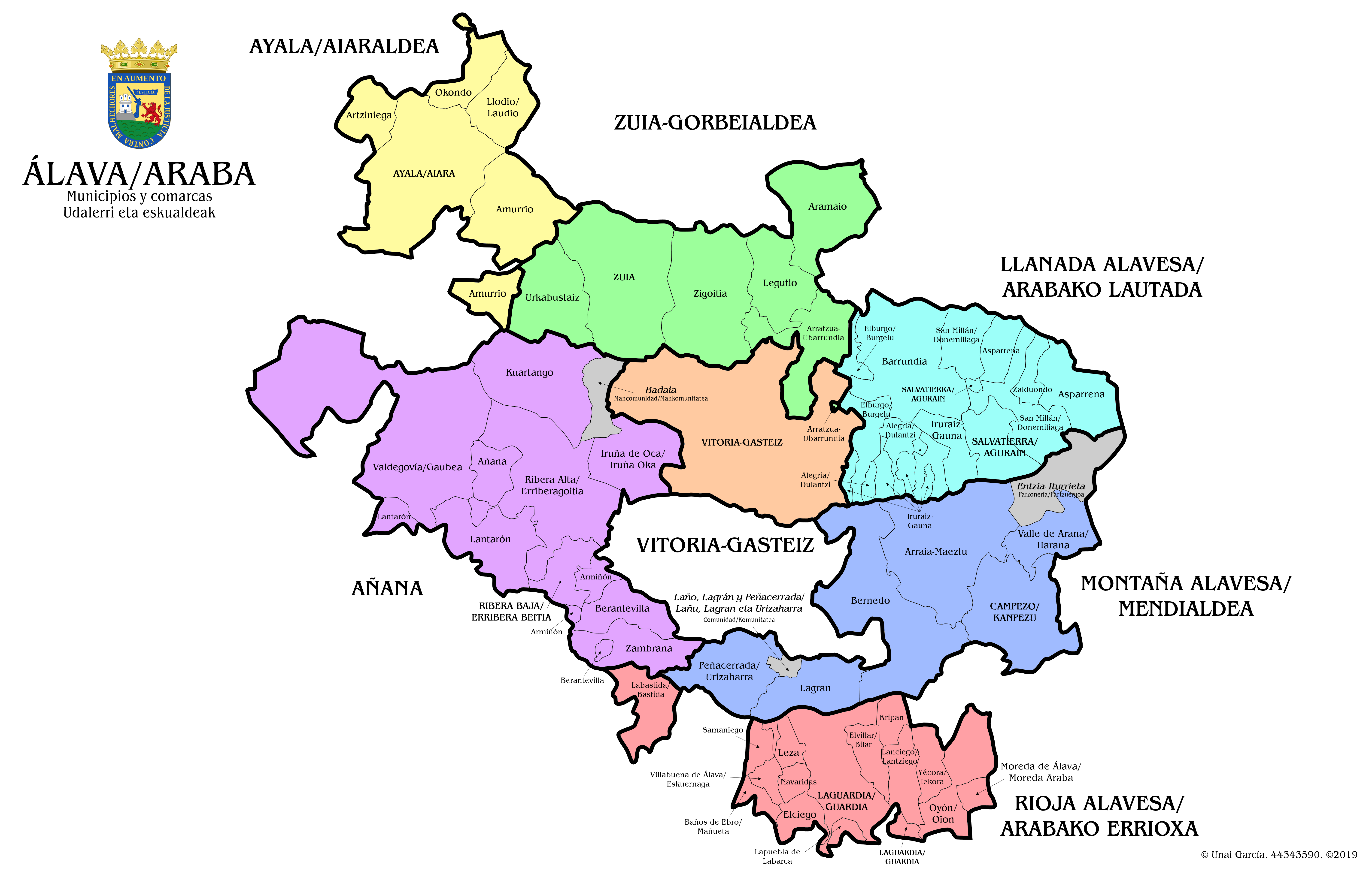 Political map of Alava (Updated: 2019)